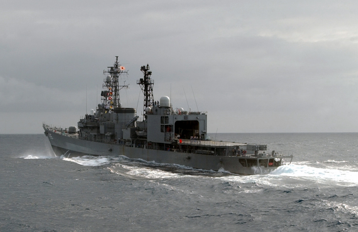 A port side stern view showing the Japanese Maritime Self Defense Force Asagiri Class Destroyer JS Hamagiri (DD-155), underway in the Pacific Ocean following a mock Refueling-at-Sea exercise conducted with U.S. Navy Ships assigned to Ronald Reagan Carrier Strike Group, on March 17, 2007. The Ronald Reagan Carrier Strike Group and embarked Carrier Air Wing 14 are currently underway in the Pacific Ocean in support of operations in the western Pacific. (U.S. Navy photo by Mass Communication Specialist Seaman Joe Painter) (Released)